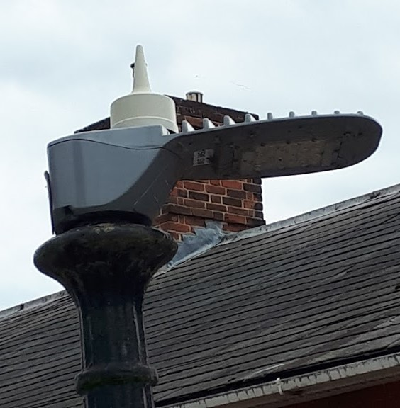 A street light made by INDO. It has a telecell installed